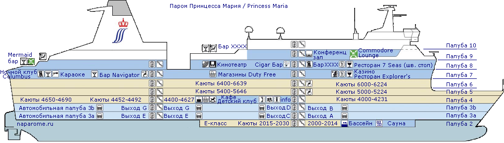 Princess Maria cut ferry